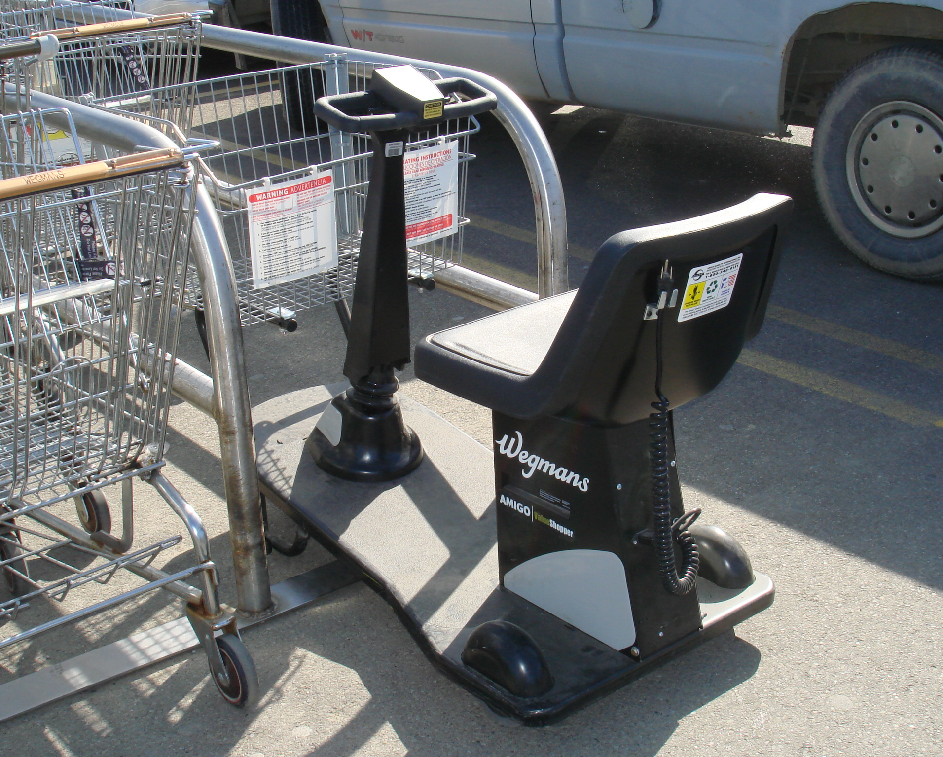 Motorized shopping cart for handicapped customers, picture taken on the parking lot of a Wegman's store in NY